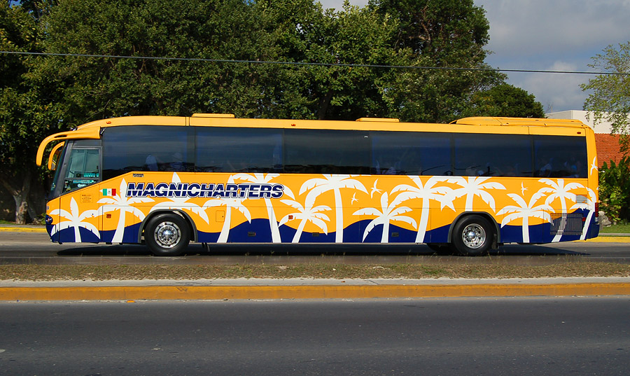 Scania K114IB in service for Mexican airline Magnicharters.